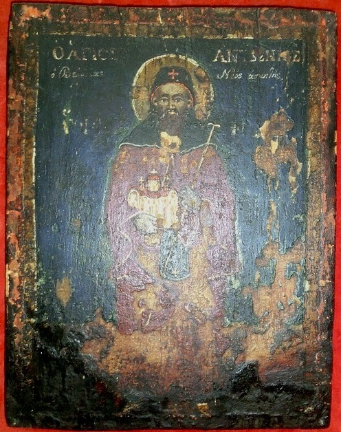 Saint Anthony of Veria Icon